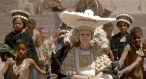 Screenshot from Edipo re